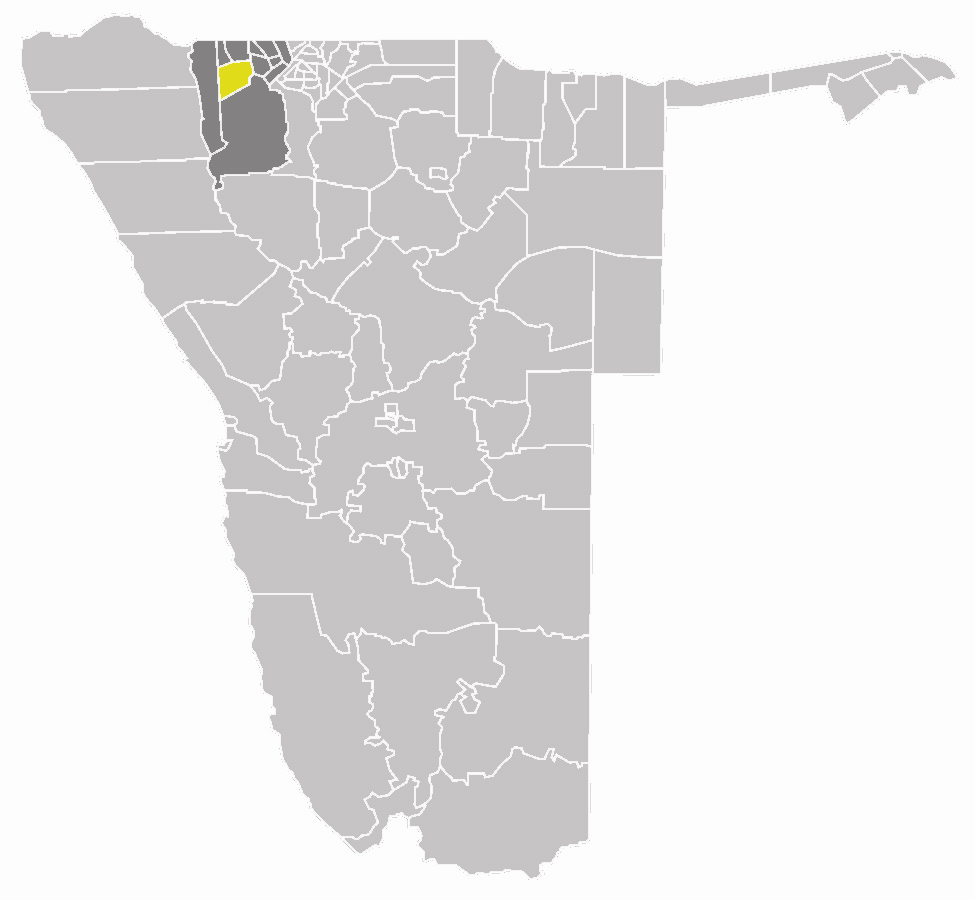 map of the Tsandi constituency within the Omusati region, Namibia